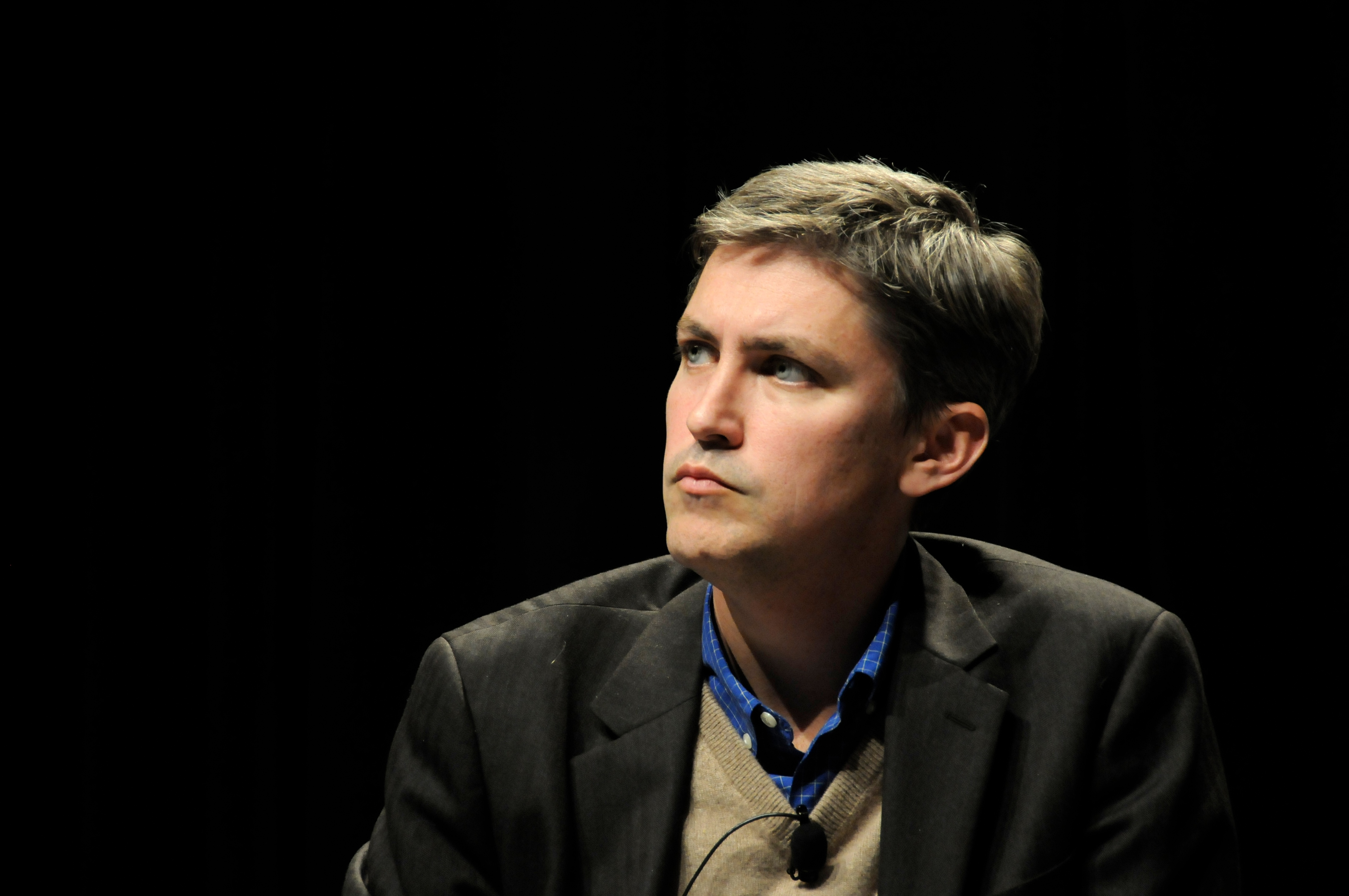 Steven Berlin Johnson at South by Southwest in 2008.